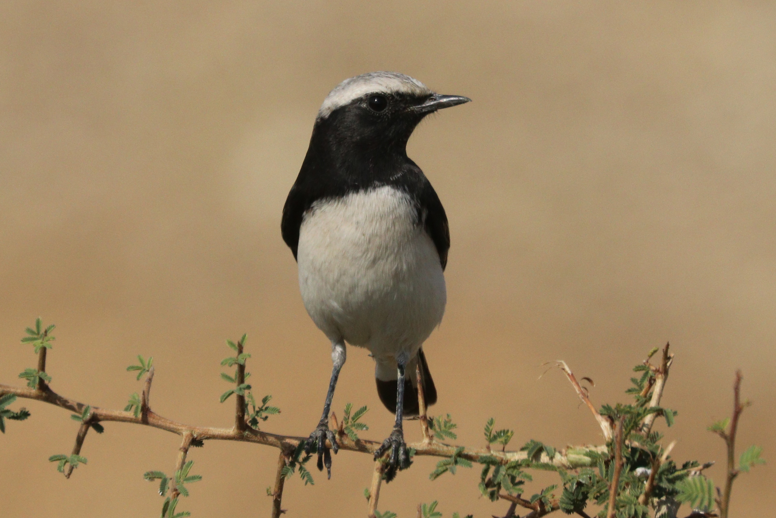 Variable wheatear (Oenanthe picata capistrata) male, Jawai, Rajasthan, India